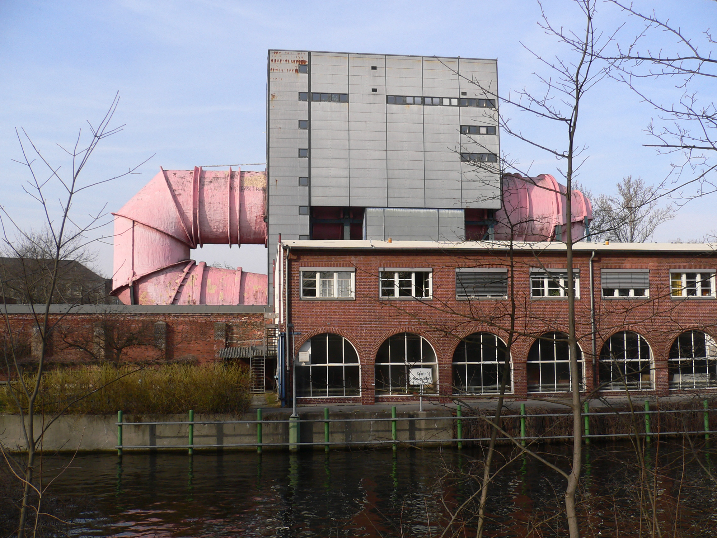 Cavitation tunnel (hydrodynamic test facility)